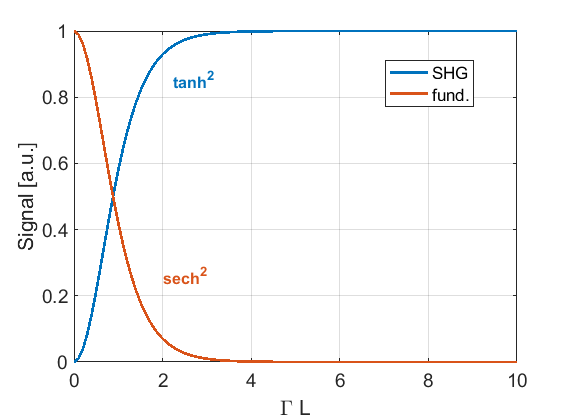 Abscissa: argument of the functions with Gamma and L defined in the equations of